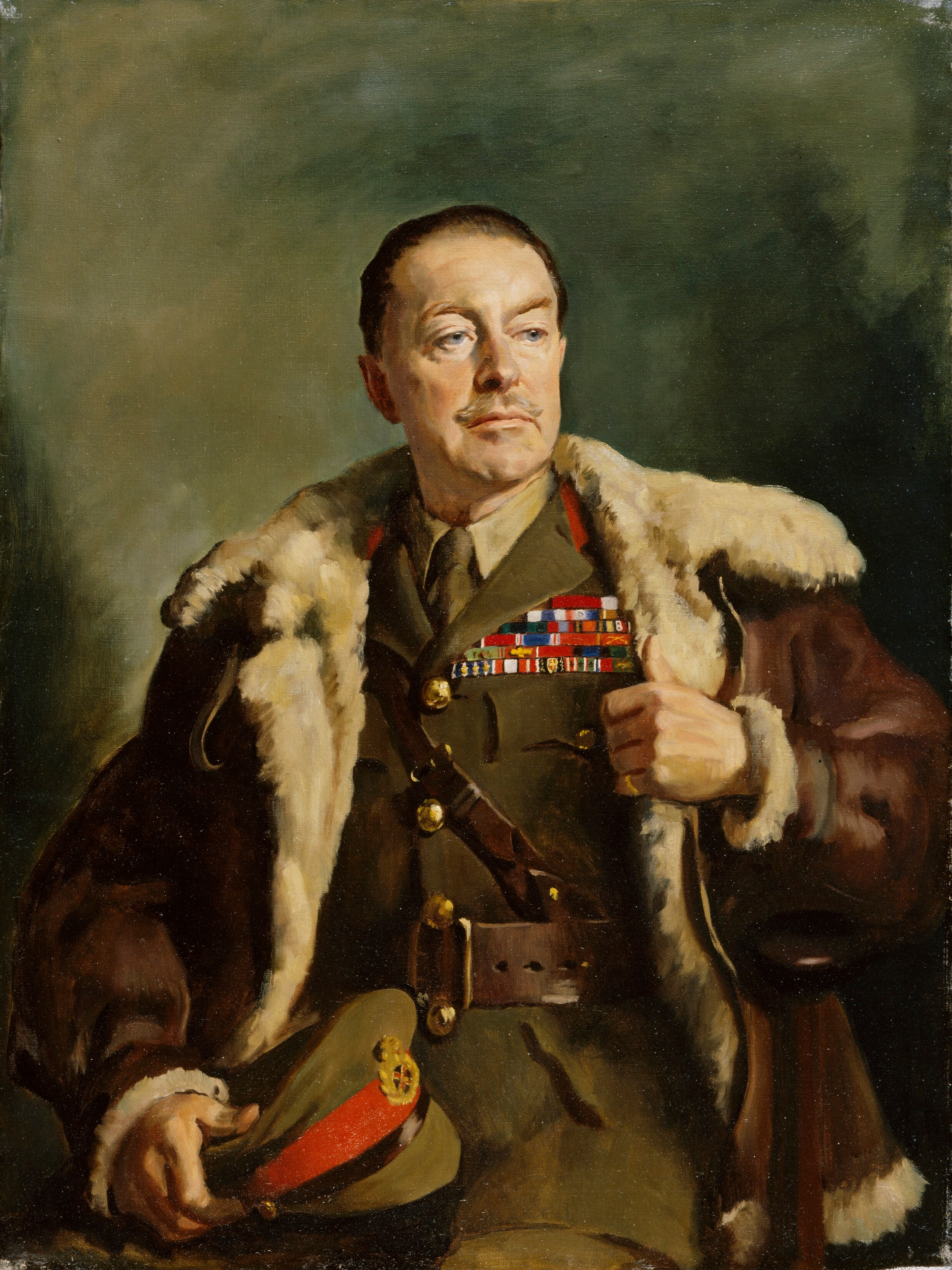 Copy by John Leigh-Pemberton of a portrait by Sir Oswald Birley, the original being the property of White's Club, St. James', London, SW1 image: A half-length portrait of Alexander wearing uniform with a fur lined bomber-style leather jacket over the top. He holds his cap in his right hand.